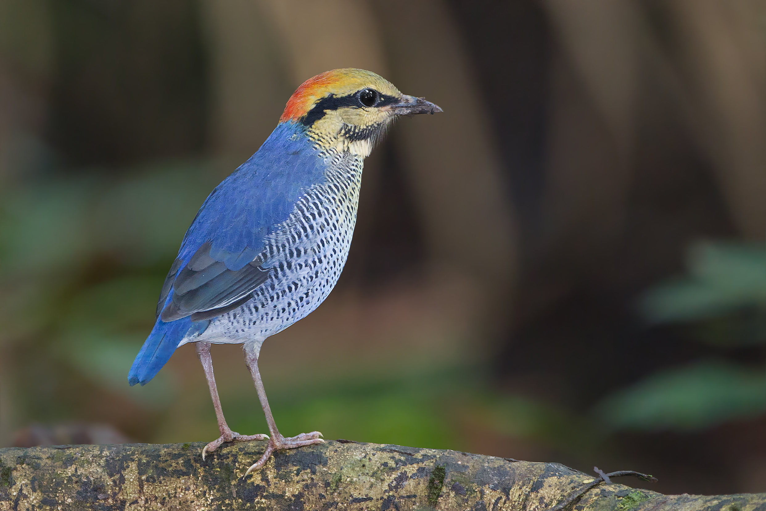 A male Blue Pitta (Pitta cyanea), Khao Yai National Park, Nakhon Ratchasima, Thailand